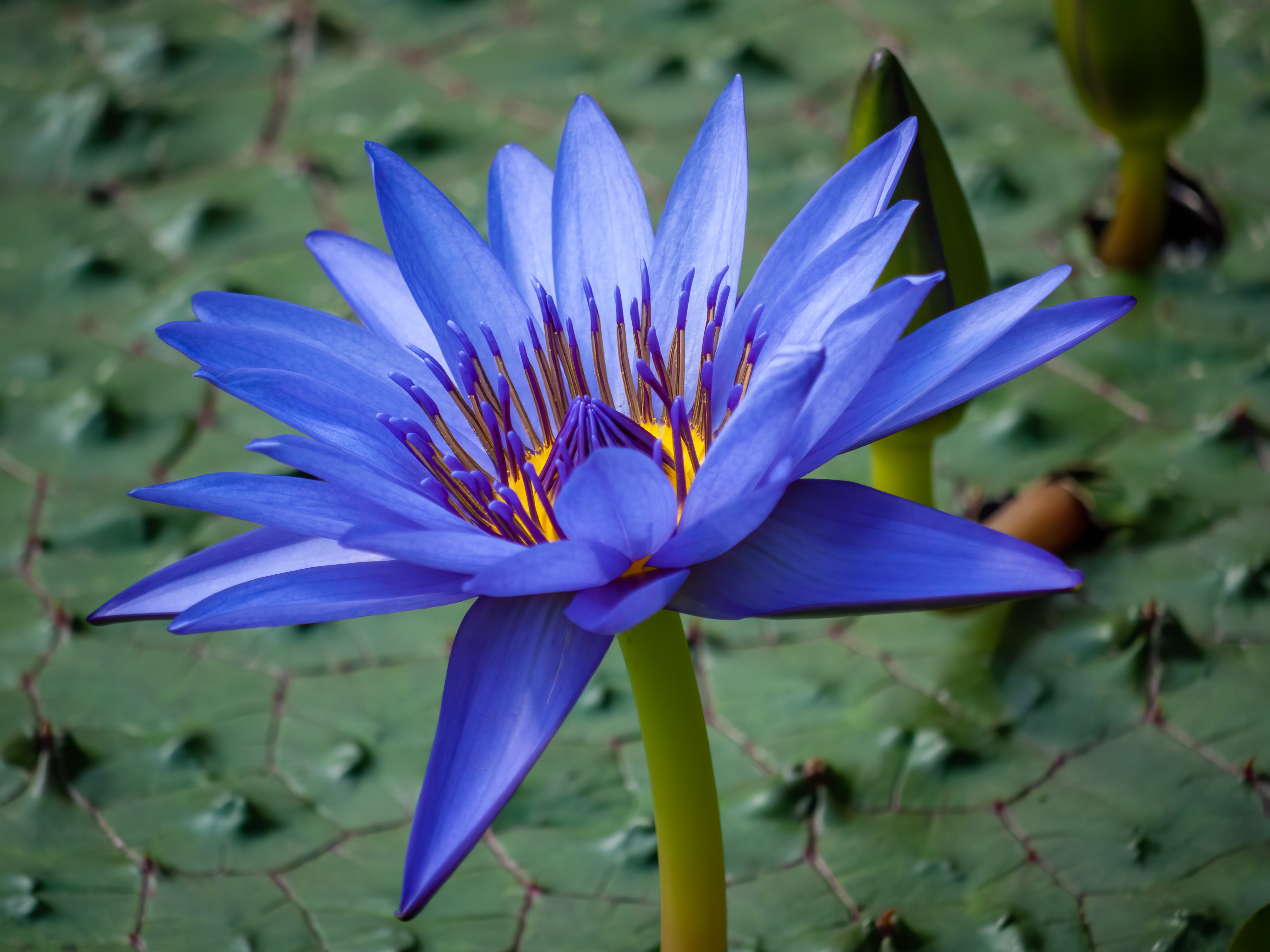 Blue Lotus (Nymphaea caerulea) in the Botanical Garden of Hokkaido University in Sapporo